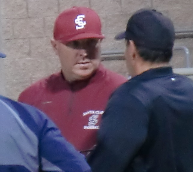 Santa Clara University baseball coach Dan O'Brien speaks with the umpire before Santa Clara's game against Michigan on Feb. 28, 2016 at Schott Stadium in Santa Clara, Calif.